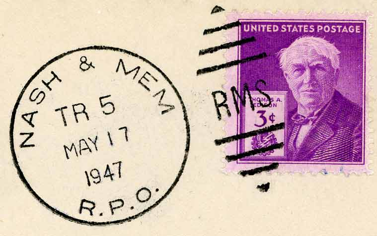 Scan of railway post office cancellation and stamp from my collection.